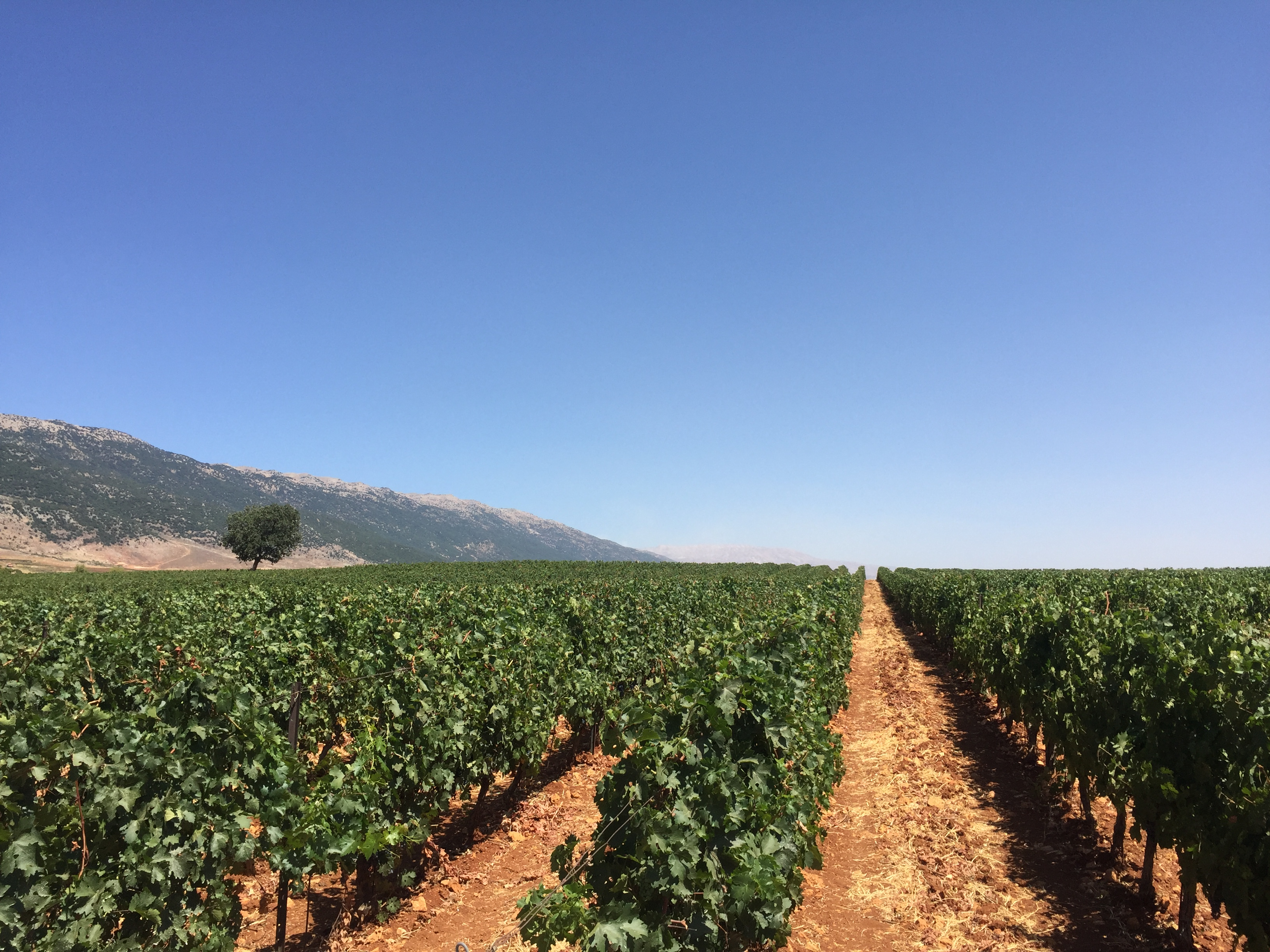 The vineyards of Chateau Marsyas in the Beqaa valley in Lebanon